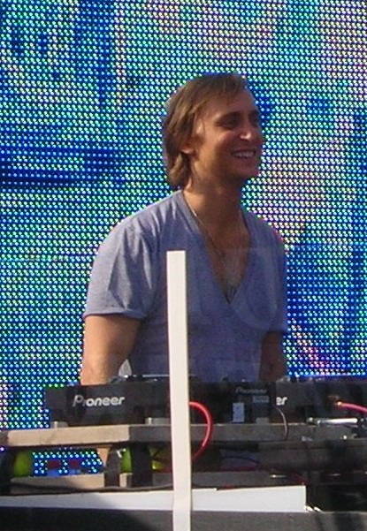 David Guetta pressing play on his Pioneer DJ Deck.